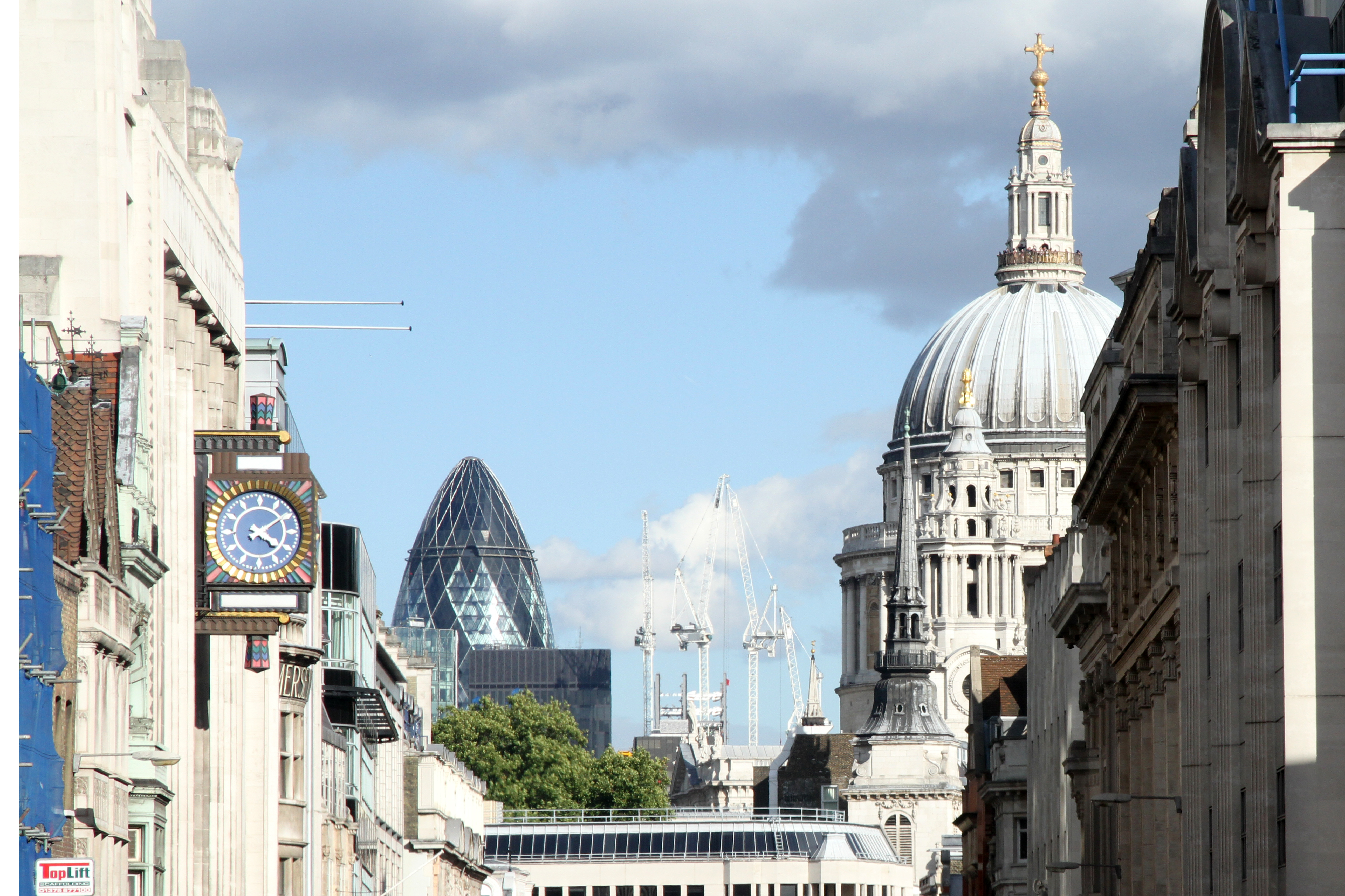 St Paul's Cathedral 5